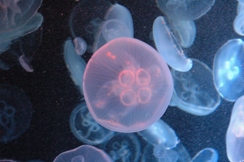 Yamagata Pref.(JAPAN) Kamo-Aquarium photo by 2005.8.6